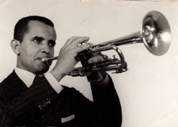 Picture of staff trumpet file Maurilio Santos made his coined Solon Gonçalves.